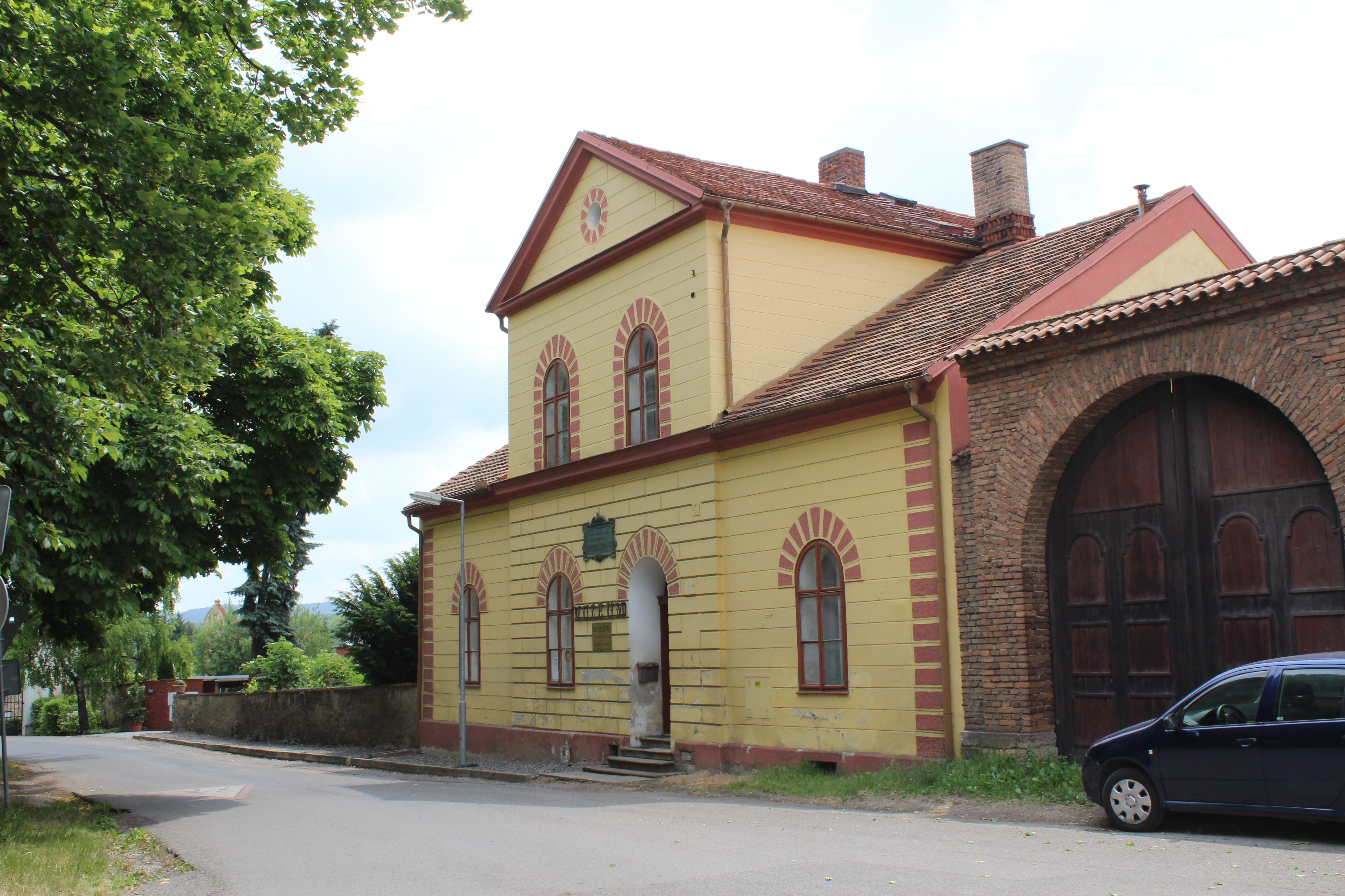 Museum Svatopluk Cech and Jarmila Novotna in Liten. The museum is located in the newly built premises memorable rectory near the church. Peter and Paul, where permanent exhibitions Jarmila Novotna and Svatopluk Cech.